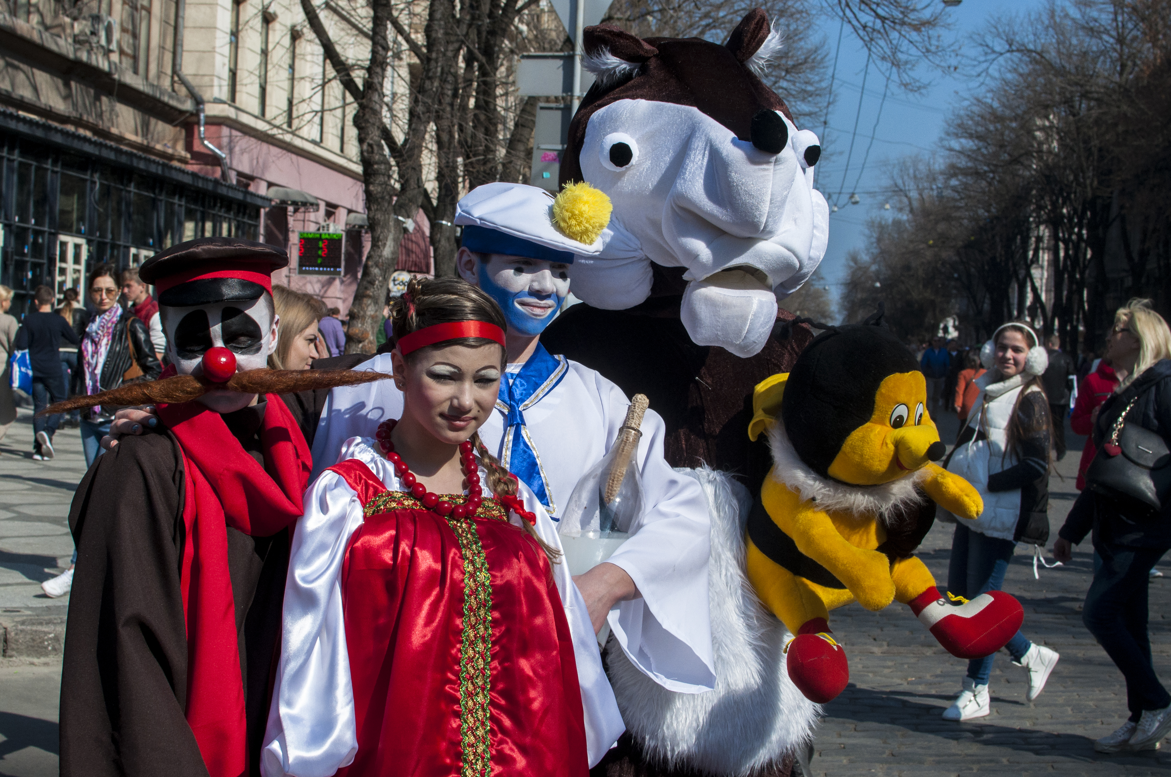 1 April